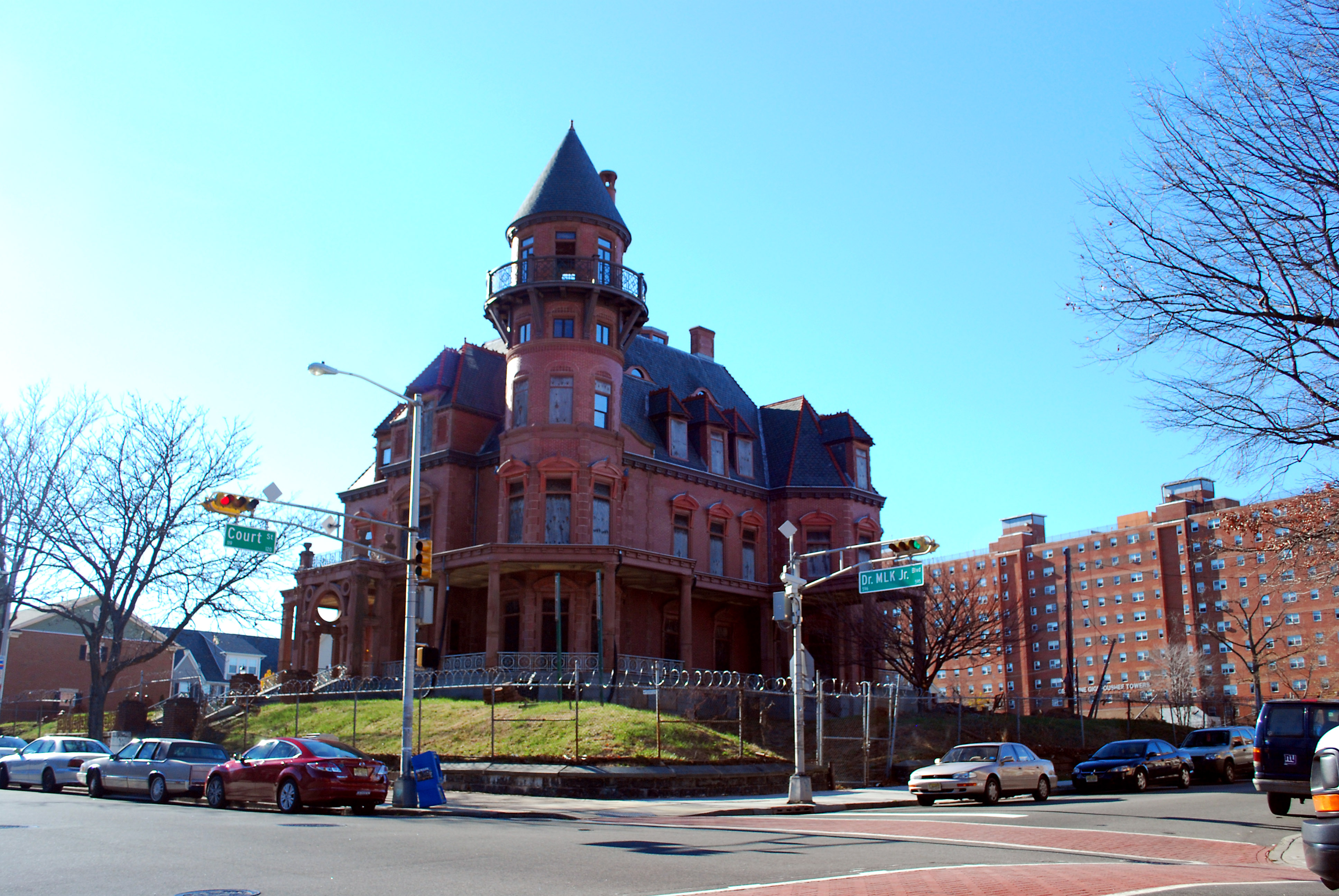 Krueger Scott Mansion, exterior, Corner of Court Street and Dr. Martin Luther King Jr. Blvd., Newark, Jersey